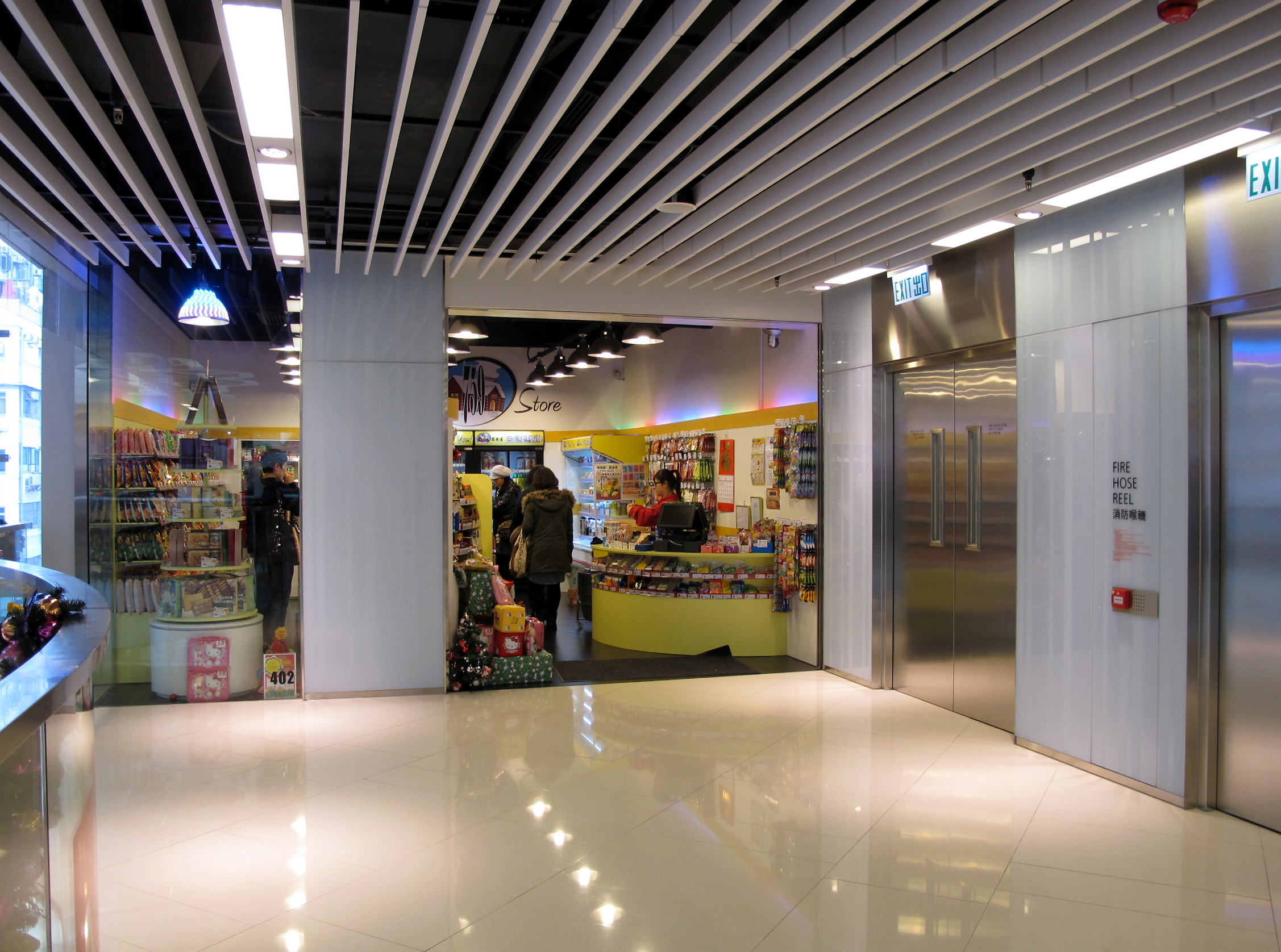 759 Store in iSQUARE. Tsim Sha Tsui